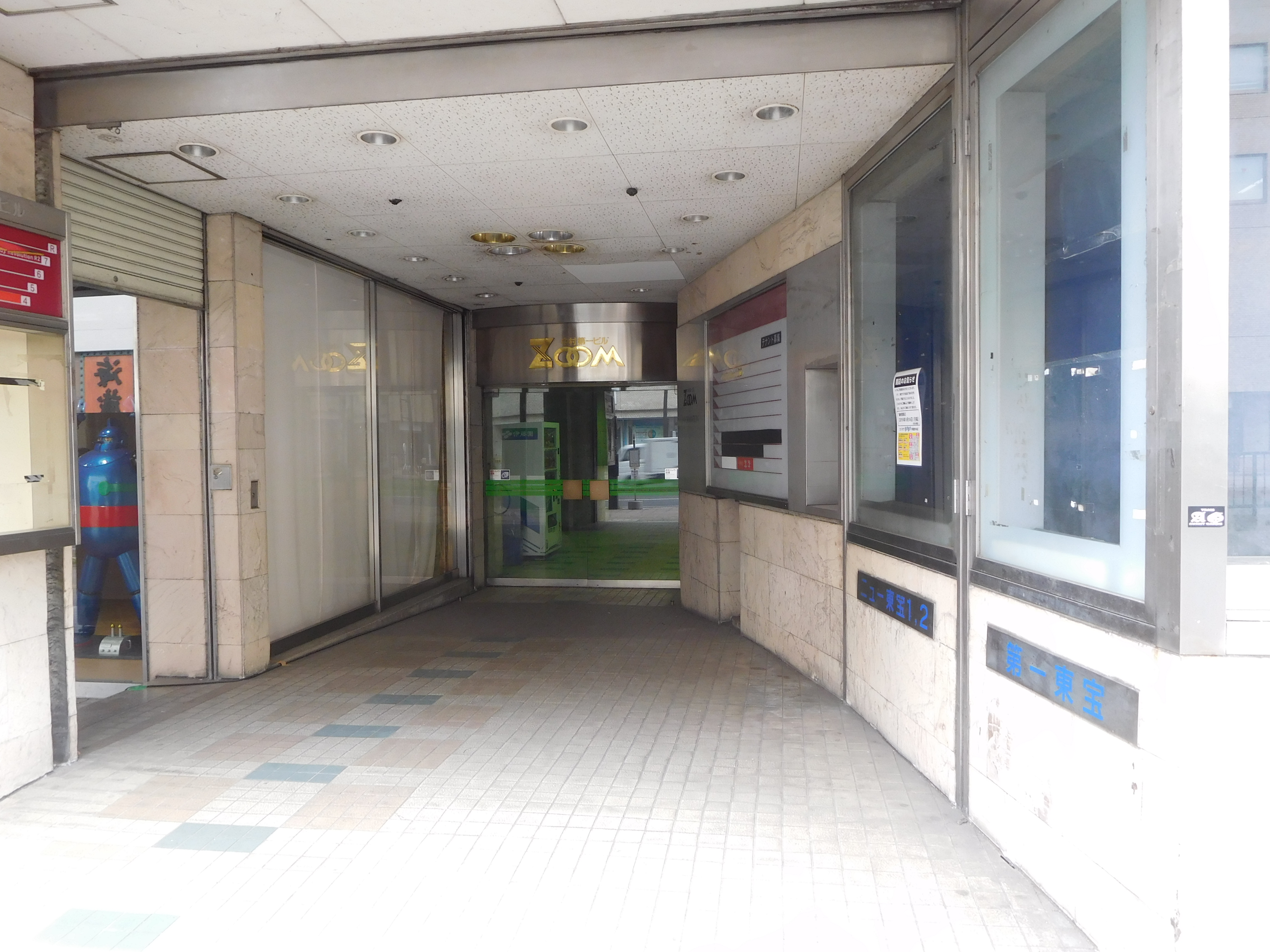 This was a cinema called "Utsunomiya First TOHO" in Utsunomiya, Tochigi, Japan.